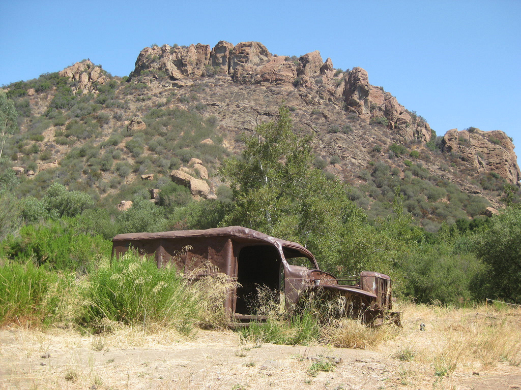 M*A*S*H site in Malibu Creek State Park. Hulk of a Dodge WC54 ambulance.